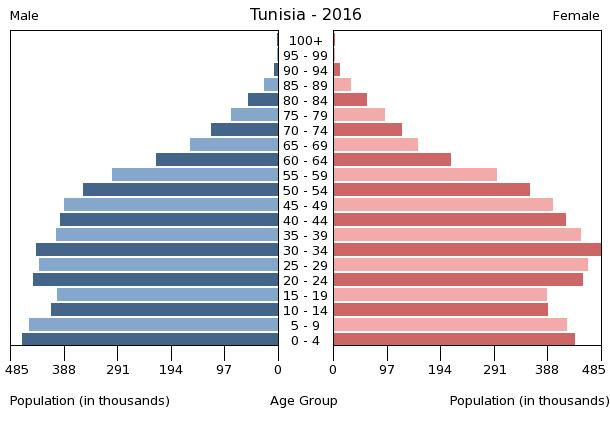 The population pyramid of Tunisia illustrates the age and sex structure of population and may provide insights about political and social stability, as well as economic development. The population is distributed along the horizontal axis, with males shown on the left and females on the right. The male and female populations are broken down into 5-year age groups represented as horizontal bars along the vertical axis, with the youngest age groups at the bottom and the oldest at the top. The shape of the population pyramid gradually evolves over time based on fertility, mortality, and international migration trends.